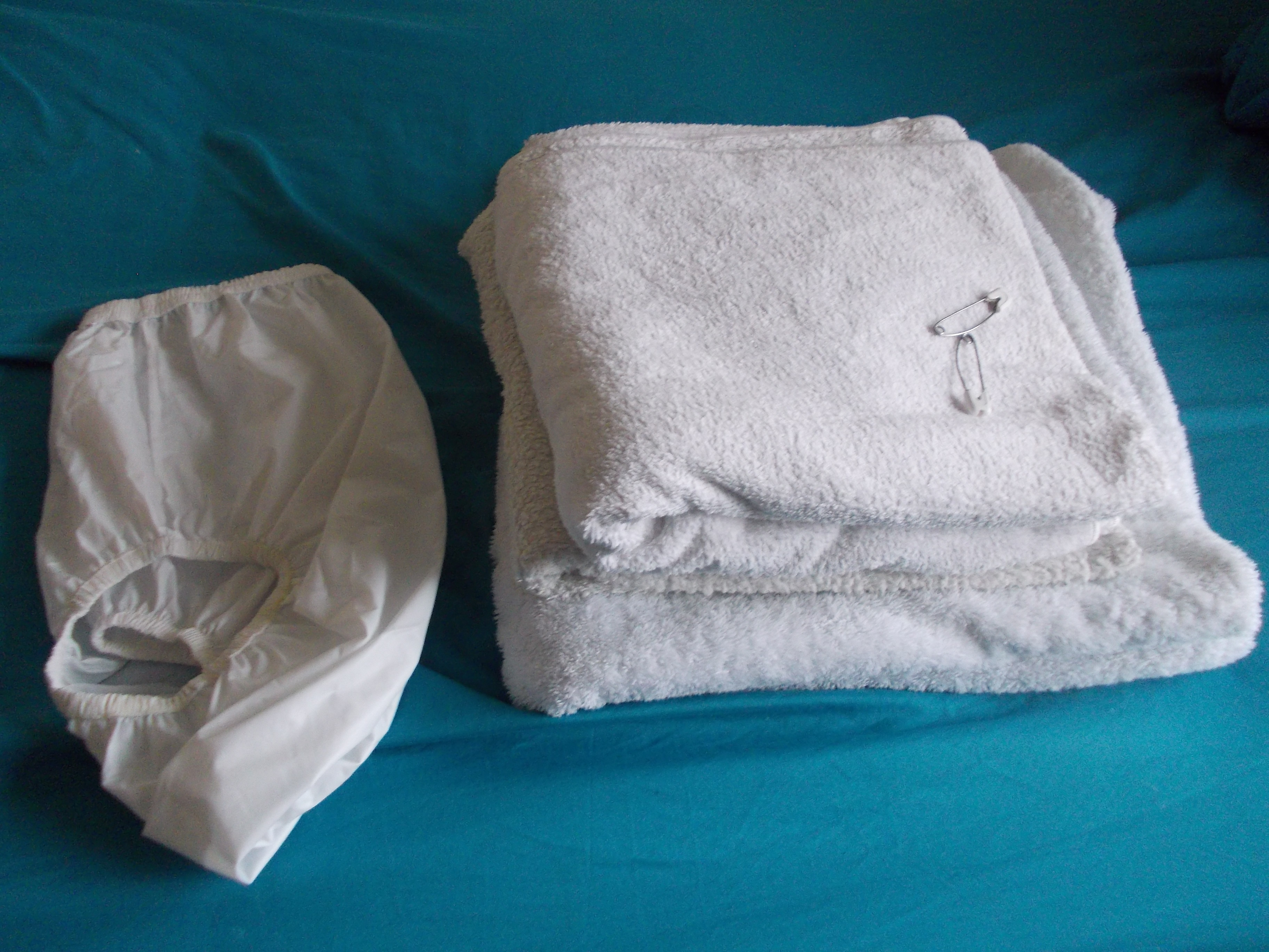 Terry nappy awaits on the bed